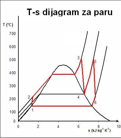 This is a T-s diagram for a Rankine cycle with reheat. The compression and expansion processes re isentropic